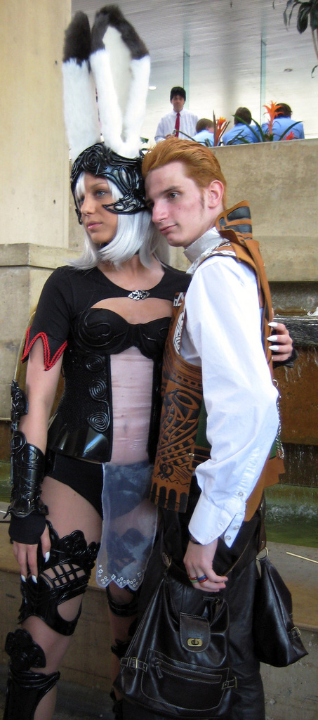 This photo was taken on July 21, 2007 using a Canon PowerShot SD1000.